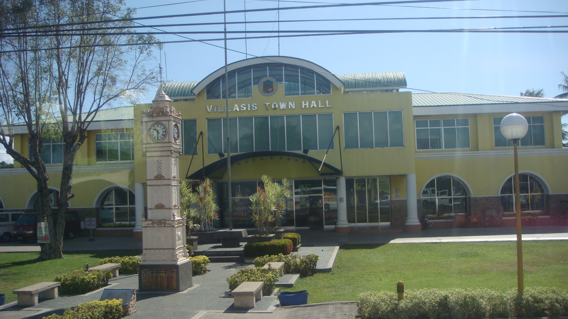 Villasis Town Hall